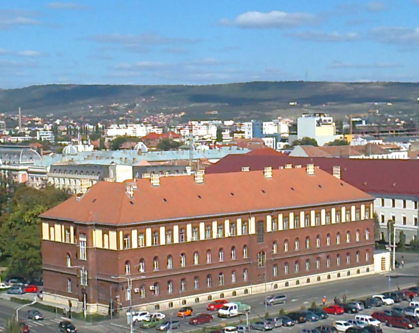 Teacher's House part of Babeș-Bolyai University in Cluj built in 1903.